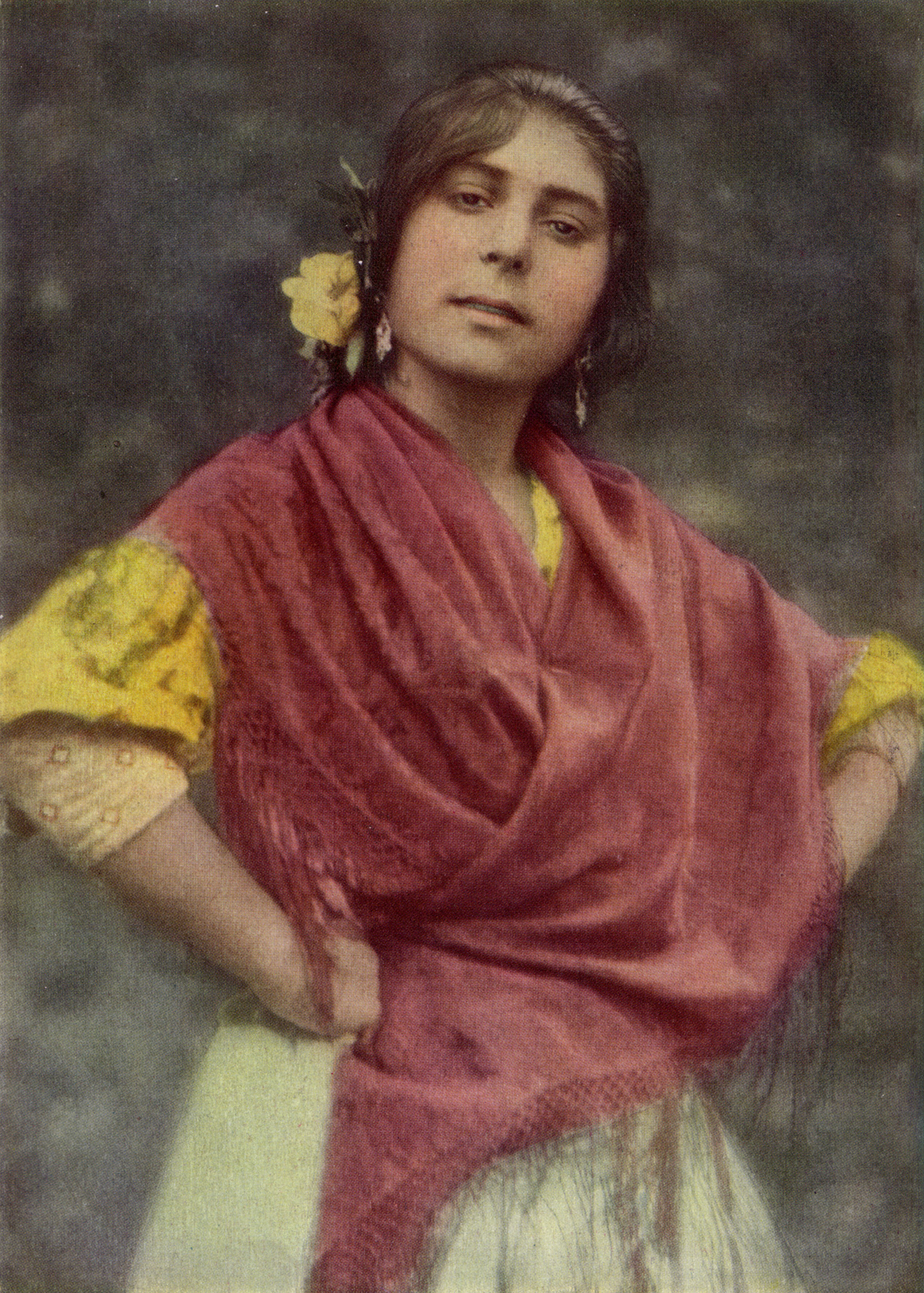 Spanish gypsy girl from Tunis(Anika Deleria Gomez). See for original description.